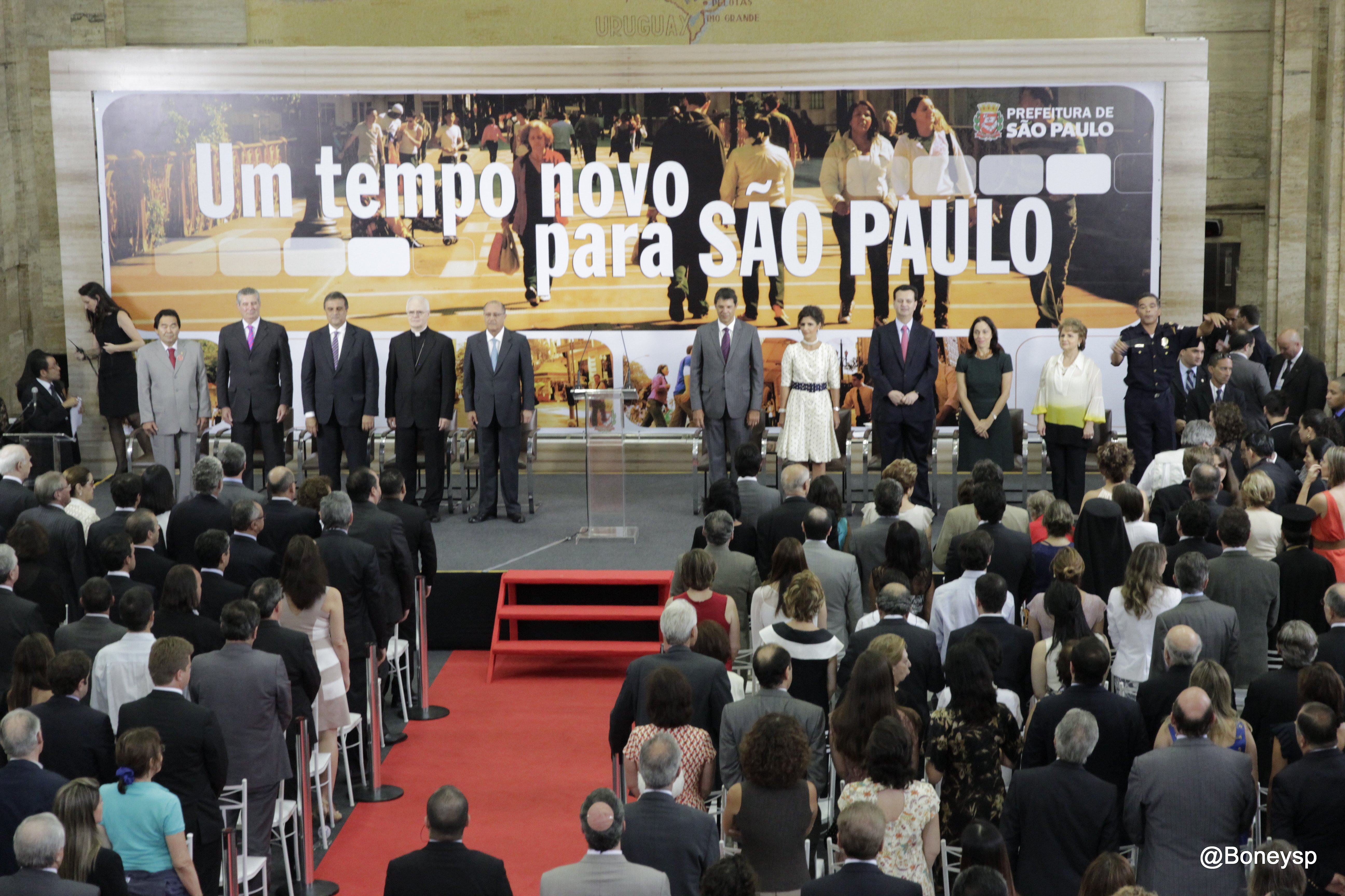 Possession of Mayor-elect Fernando Haddad in São Paulo City Hall in a ceremony at Edificio Matarazzo, City Hall.